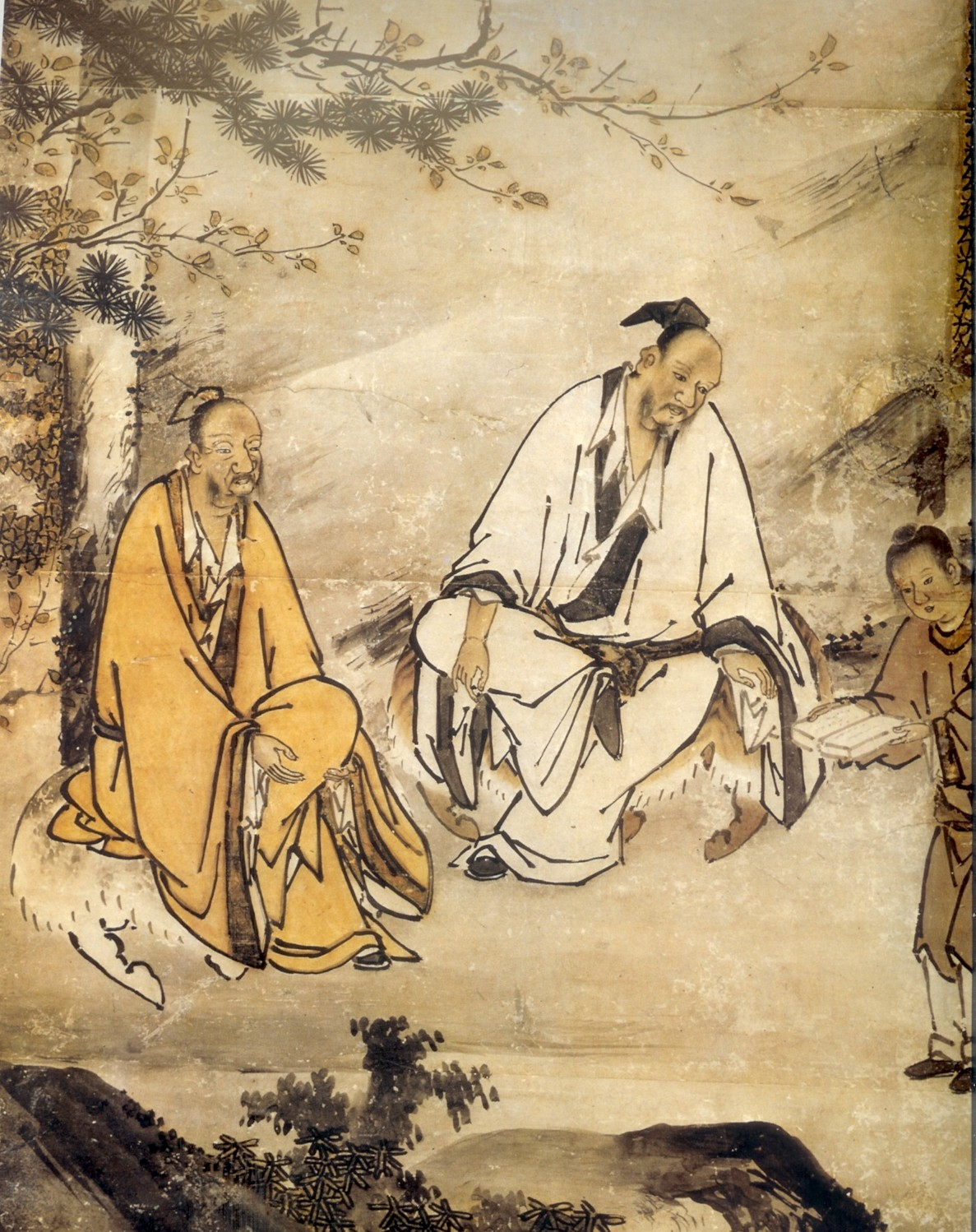 Four arts, detail